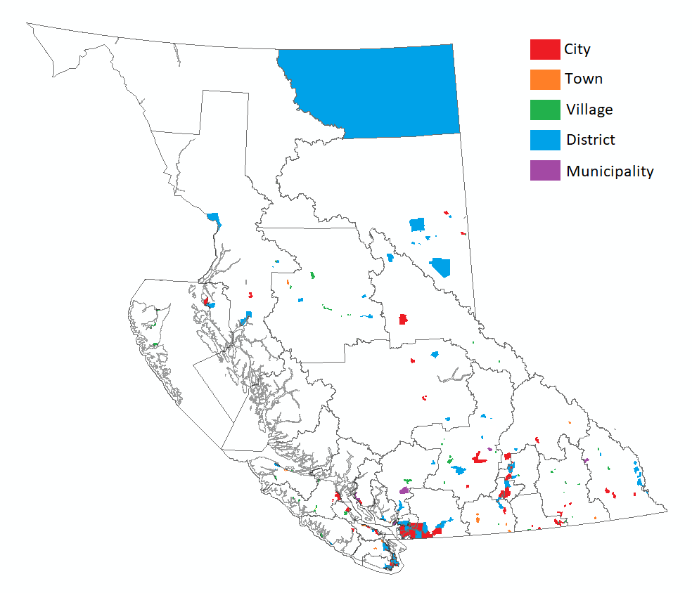 Distribution of British Columbia's 163 local municipalities (52 cities, 14 towns, 42 villages, 50 districts and 5 special municipalities) utilizing the Government of British Columbia's Data Catalogue Maps.